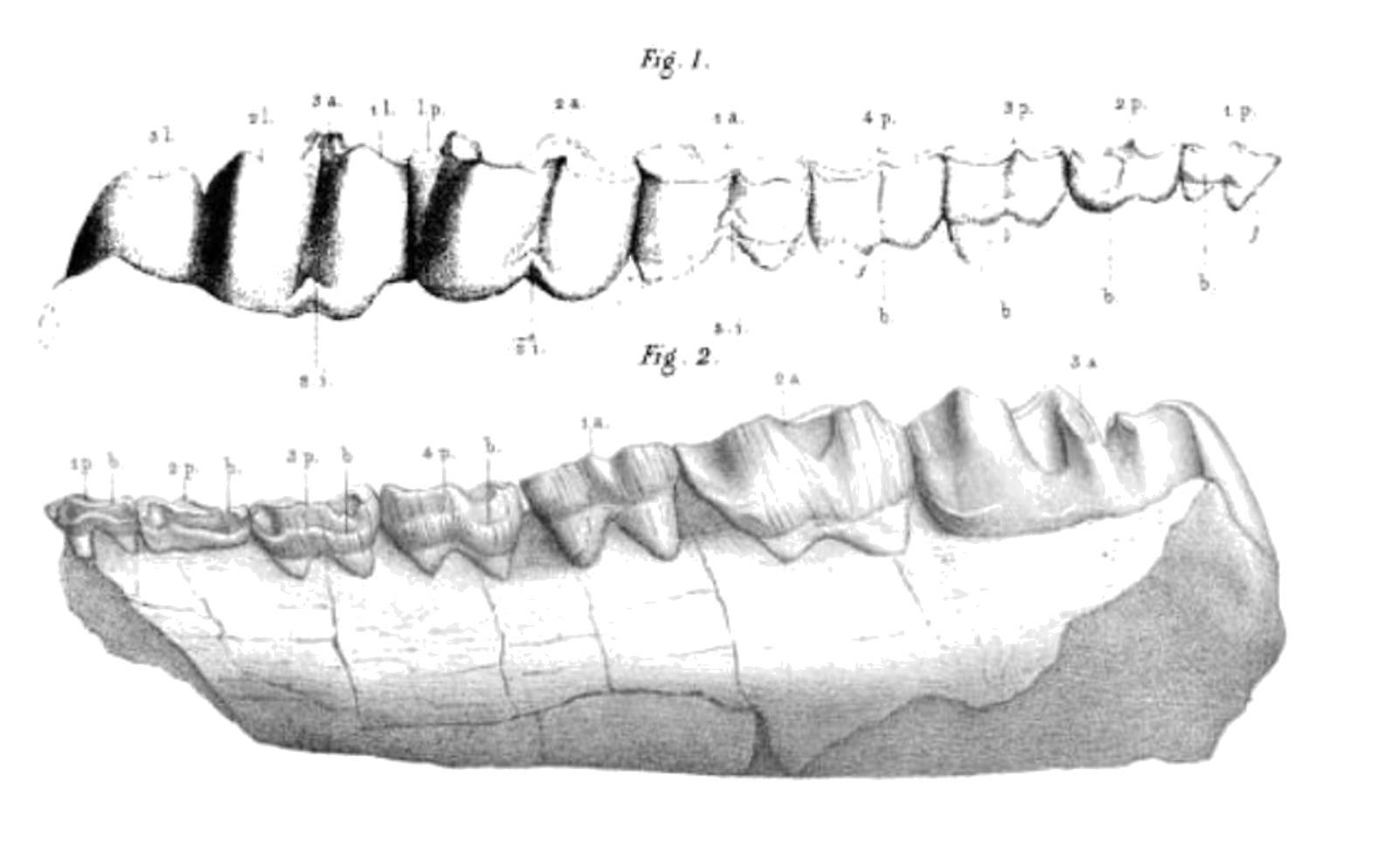 Pliohyrax, mandible found in Pikermi, Greece and published by Albert Gaudry 1867 under the genus Leptodon as the first fossil find of a hyrax; age: Miocene